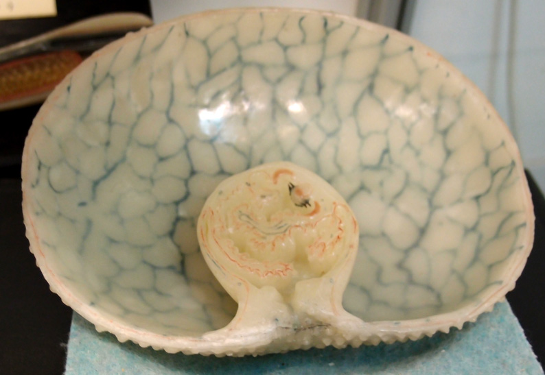 Model from the zoological collection Rostock, Germany. see also for more information on the models